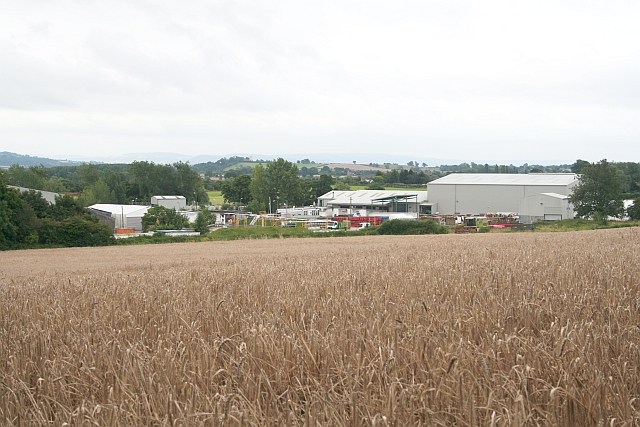 Countrywide Headquarters, Defford Countryside is a retailer of agricultural supplies. Appear to have taken over from MSF (Midland Shires Farmers).